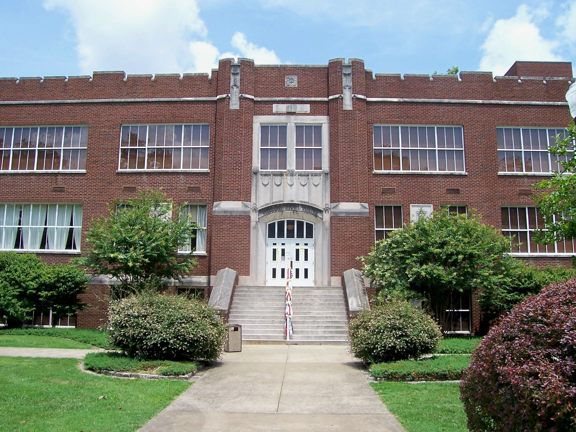 The Wrather West Kentucky History Museum at Murray State University